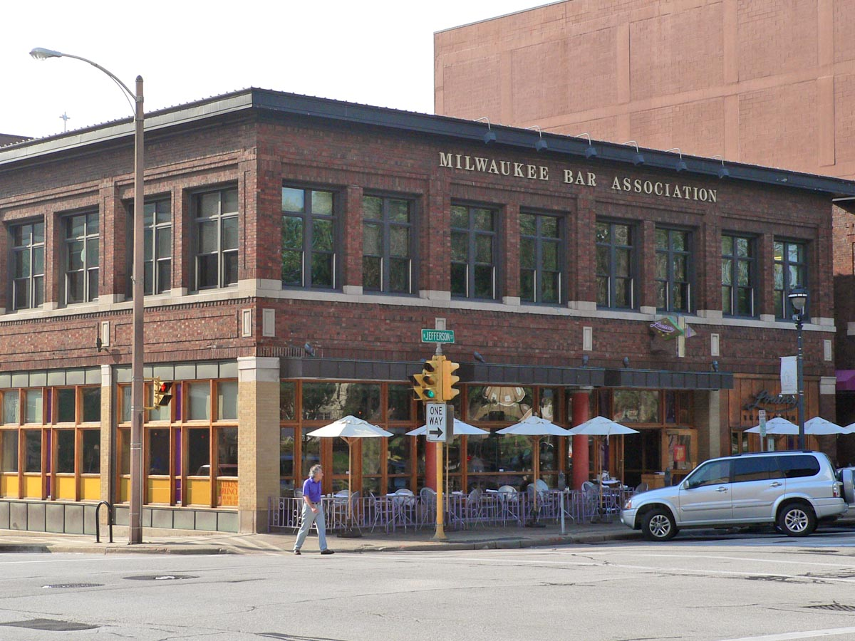 The Milwaukee Bar Association is the fifth oldest bar in the United States, and one of only a handful of pre-Civil War bar associations.